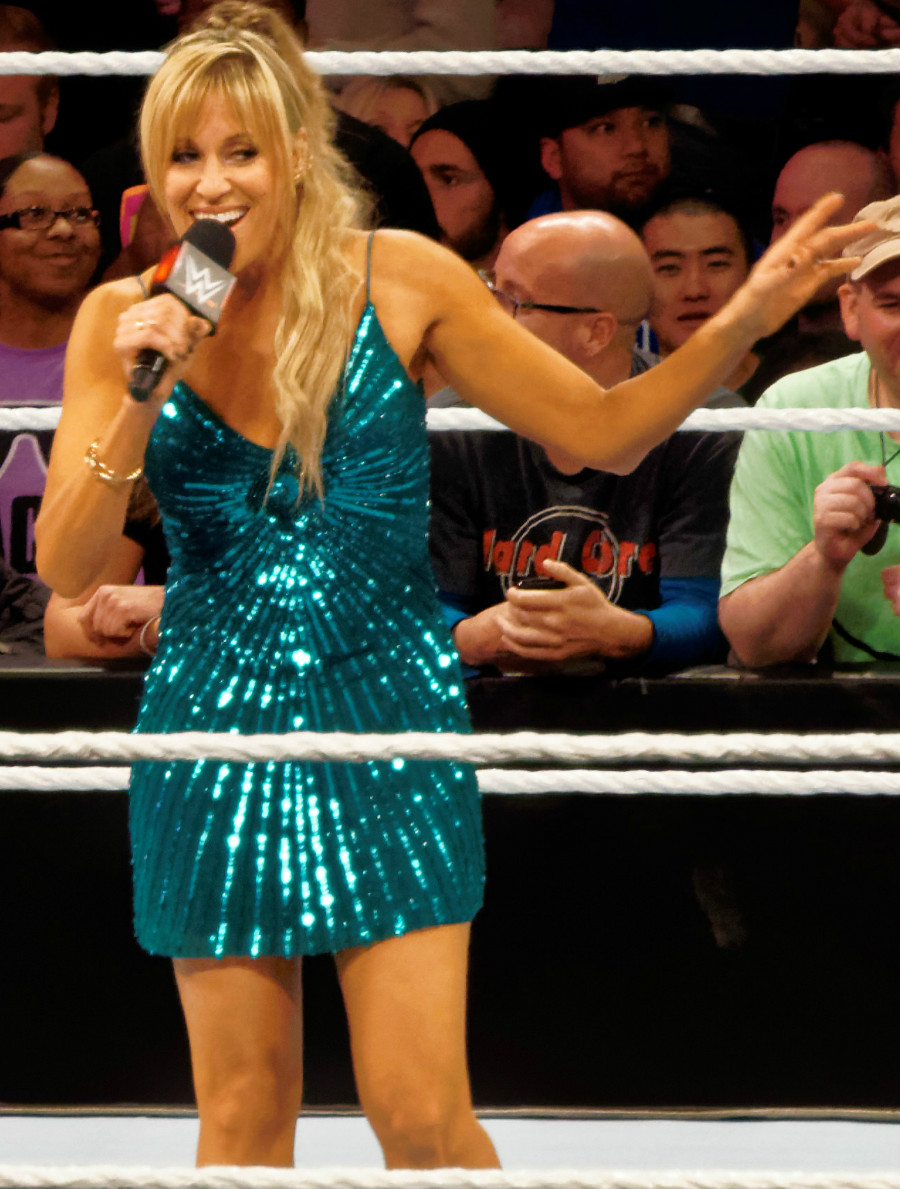 Garcia one night after WrestleMania at Raw in March 2015.